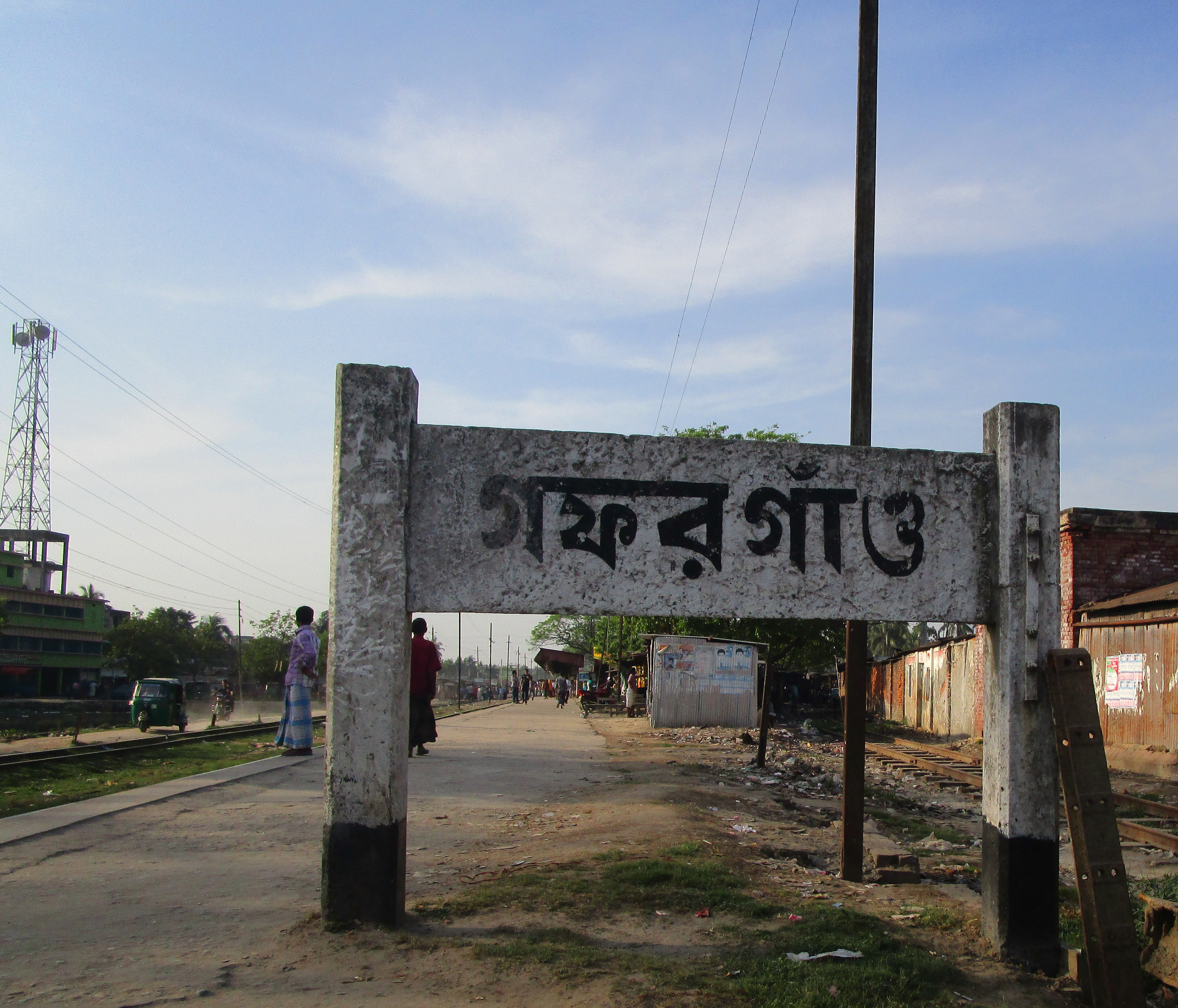 Gafargaon railway station nameplate